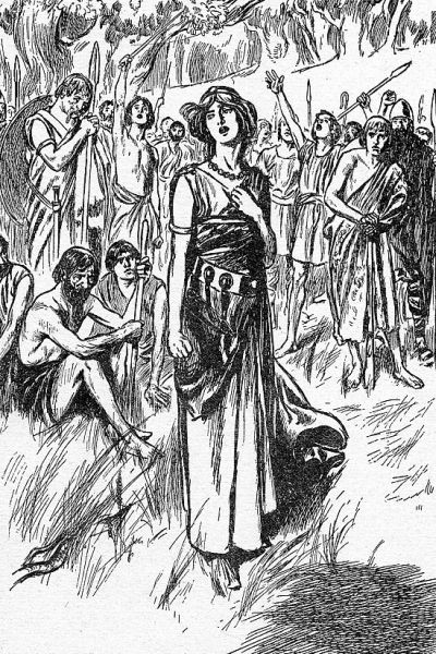 Queen Boadicea and her soldiers